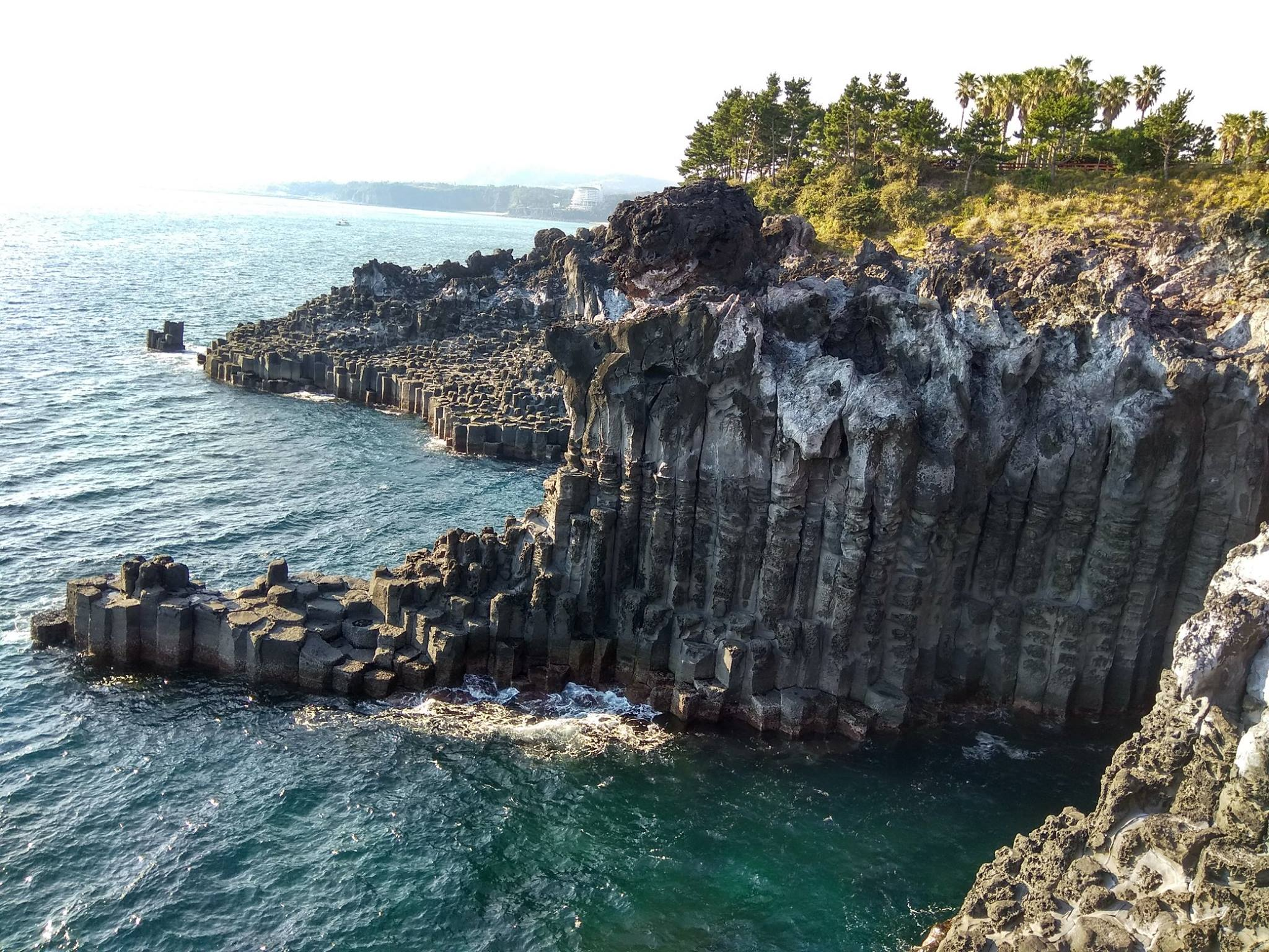 The cliff was consist of hexagonal stone pillars which made from lava that was cooled fast when it arrived at the sea